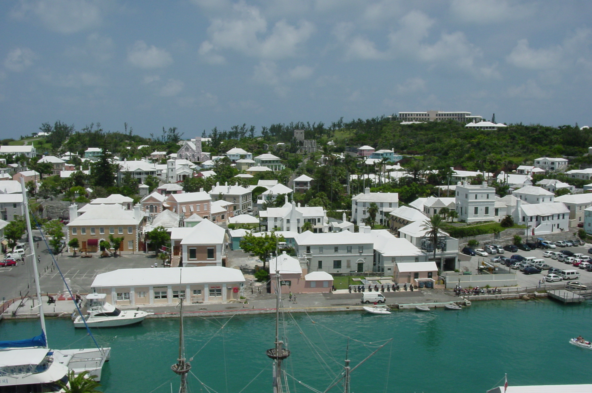 A view of St. George's, Bermuda from the Norwegian Majesty cruise ship while docked at Ordnance island.